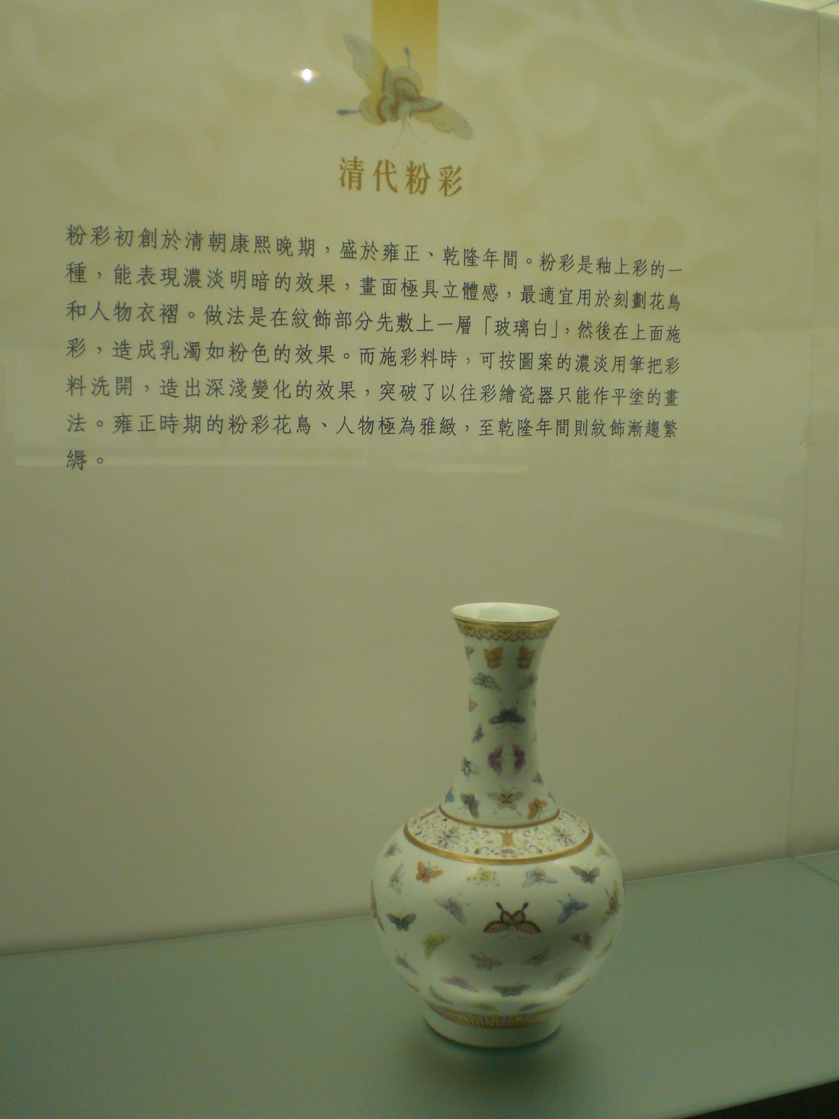 尖沙咀 香港藝術館 中國藝術陶瓷 陶器 清朝藝術